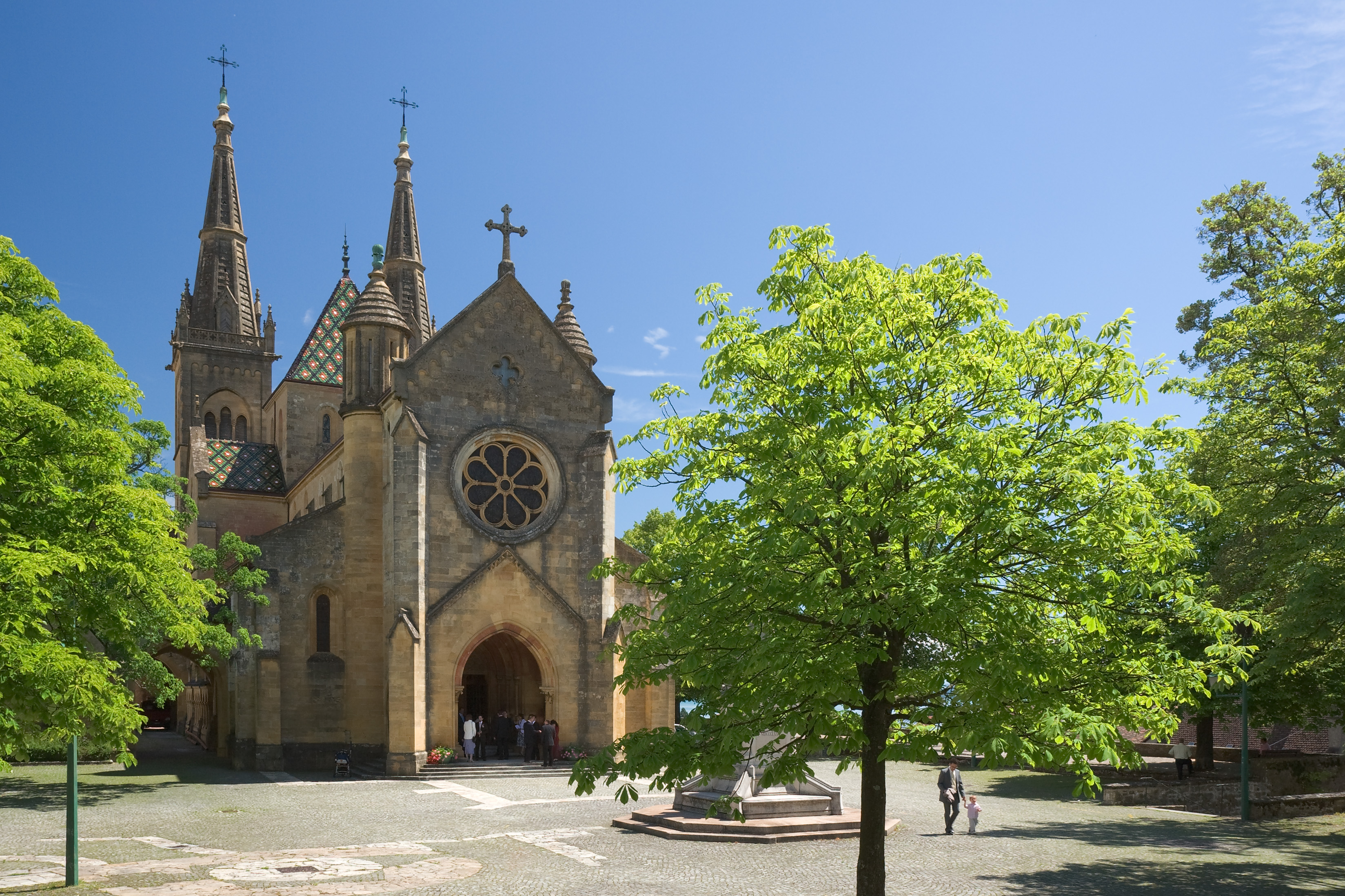 Court of the collegiate church in Neuchâtel, Switzerland